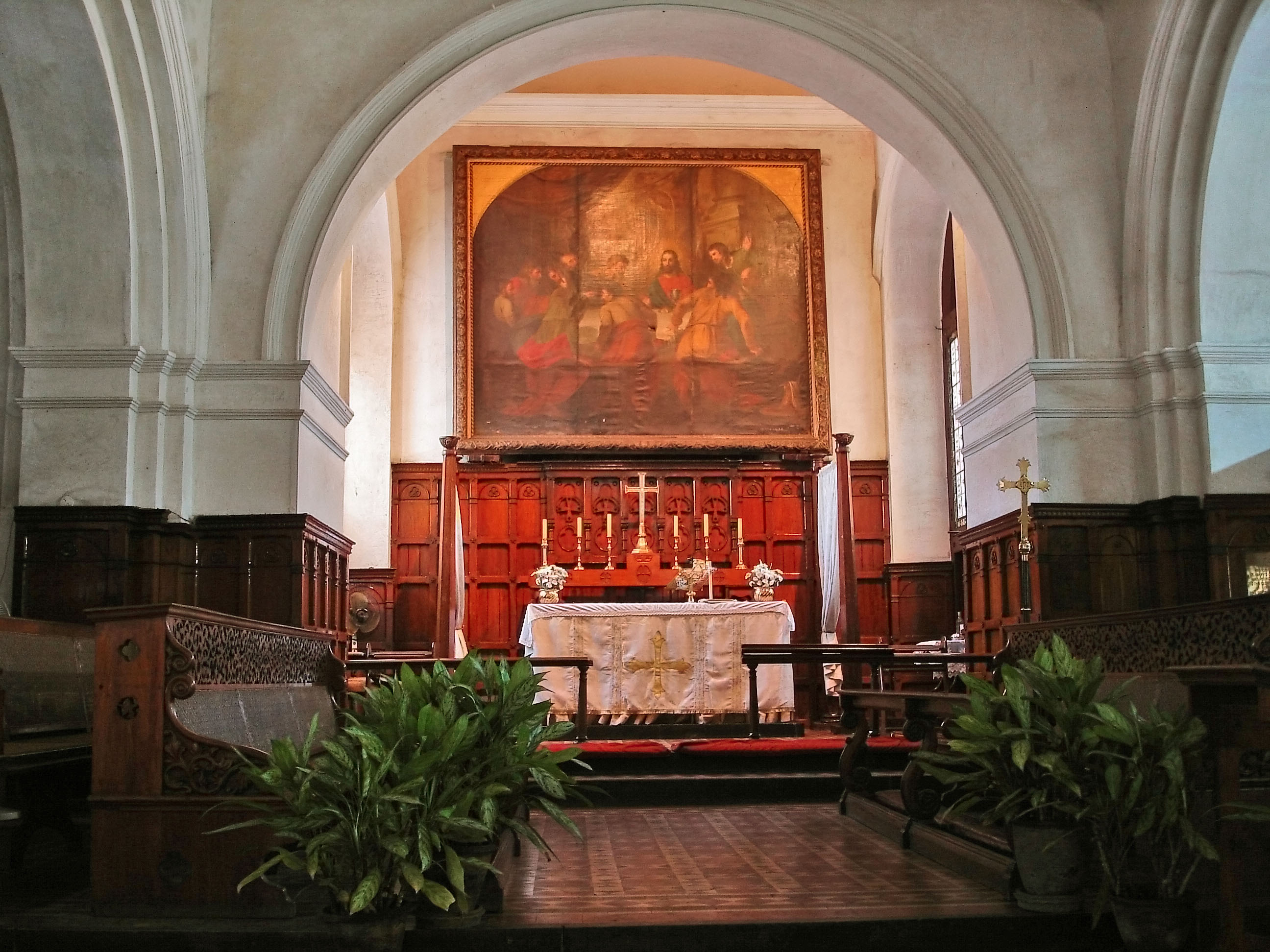 The altar of St. Mary's Church Chennai